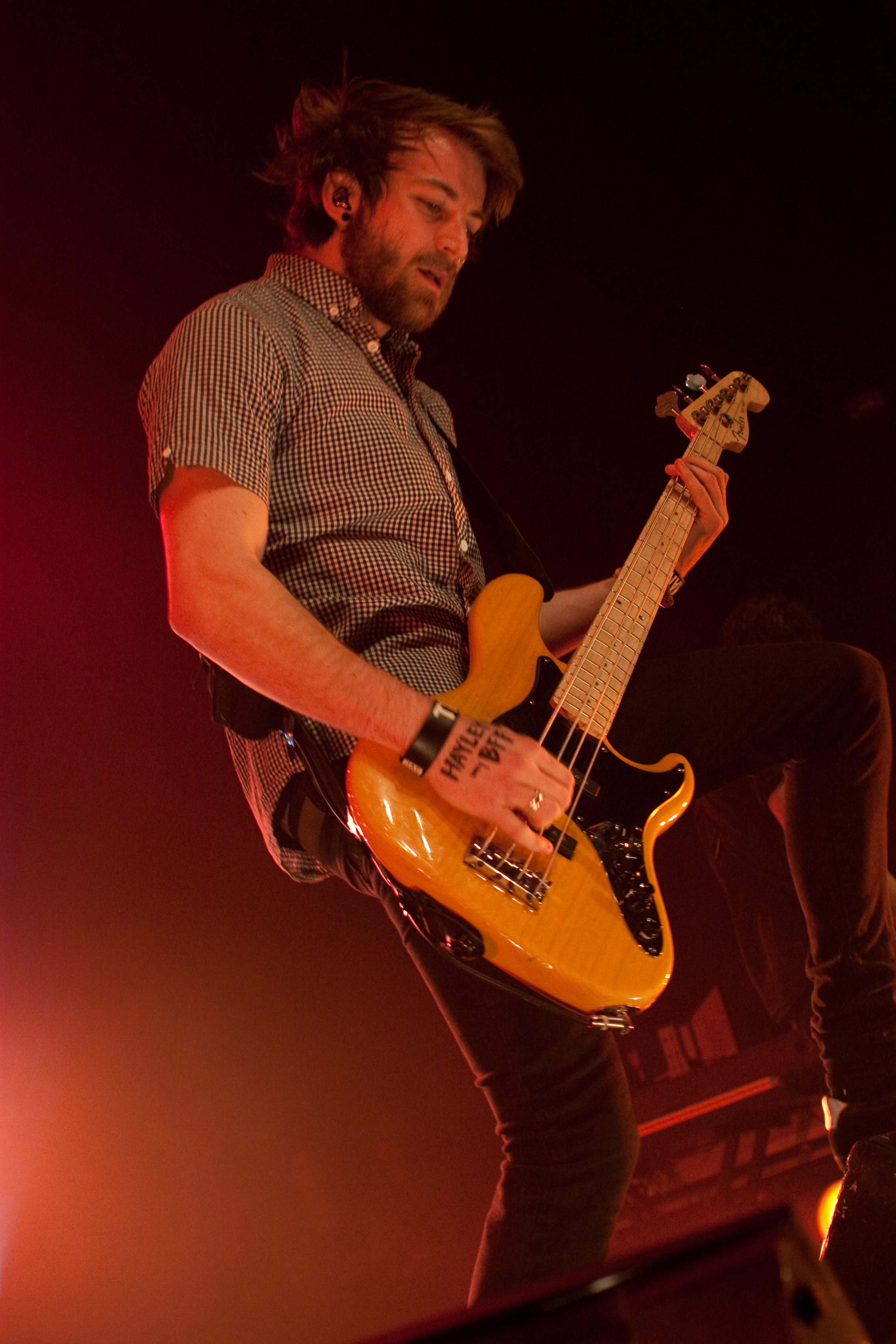 Paramore at the Warfield